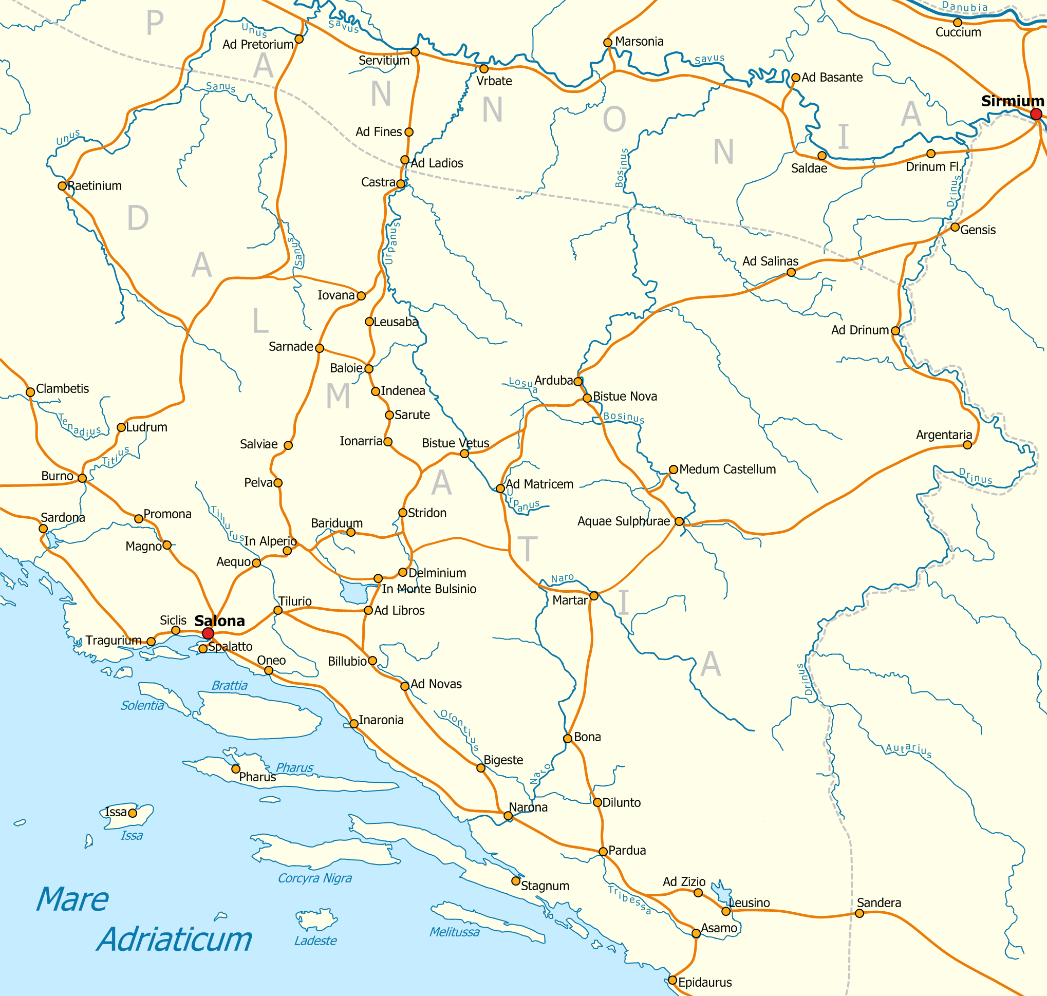 Incomplete and approximate map of ancient settlements and roads in Bosnia and HerzegovinaHrvatski: Nepotpuna i približna karta antičkih naselja i putova na području Bosne i Hercegovine